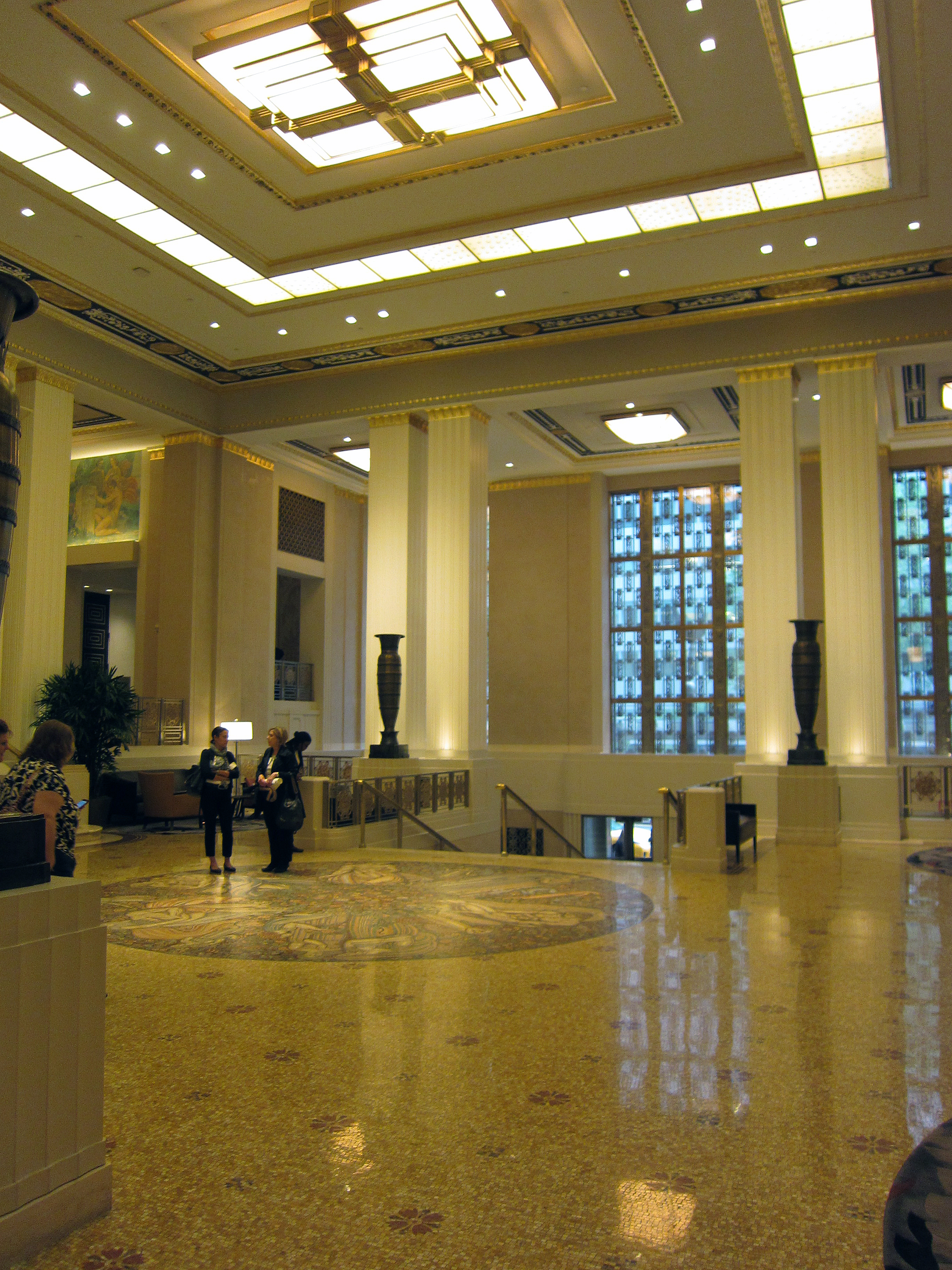 May, 2010 Waldorf-Astoria hotel lobby.